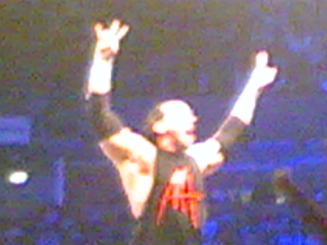 Matt Hardy before his match against Booker T for the US Title on the Eddie Guerrero tribute show